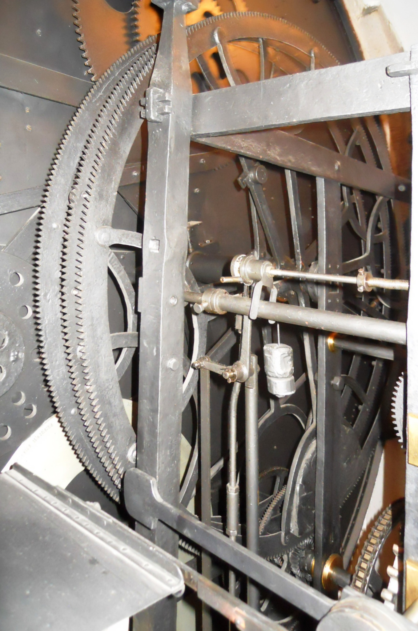 Prague Astronomical Clock, main works, the three original wheels driving the three hands: solar, siderical and lunar (1410)